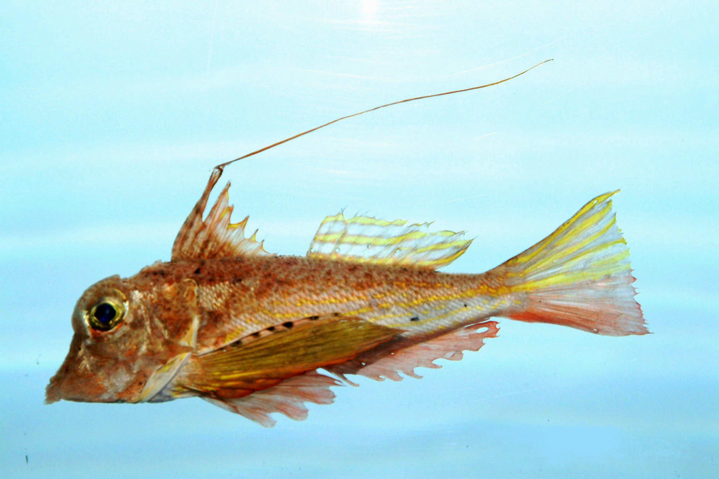 Horned searobin ( Bellator militaris ). Gulf of Mexico.